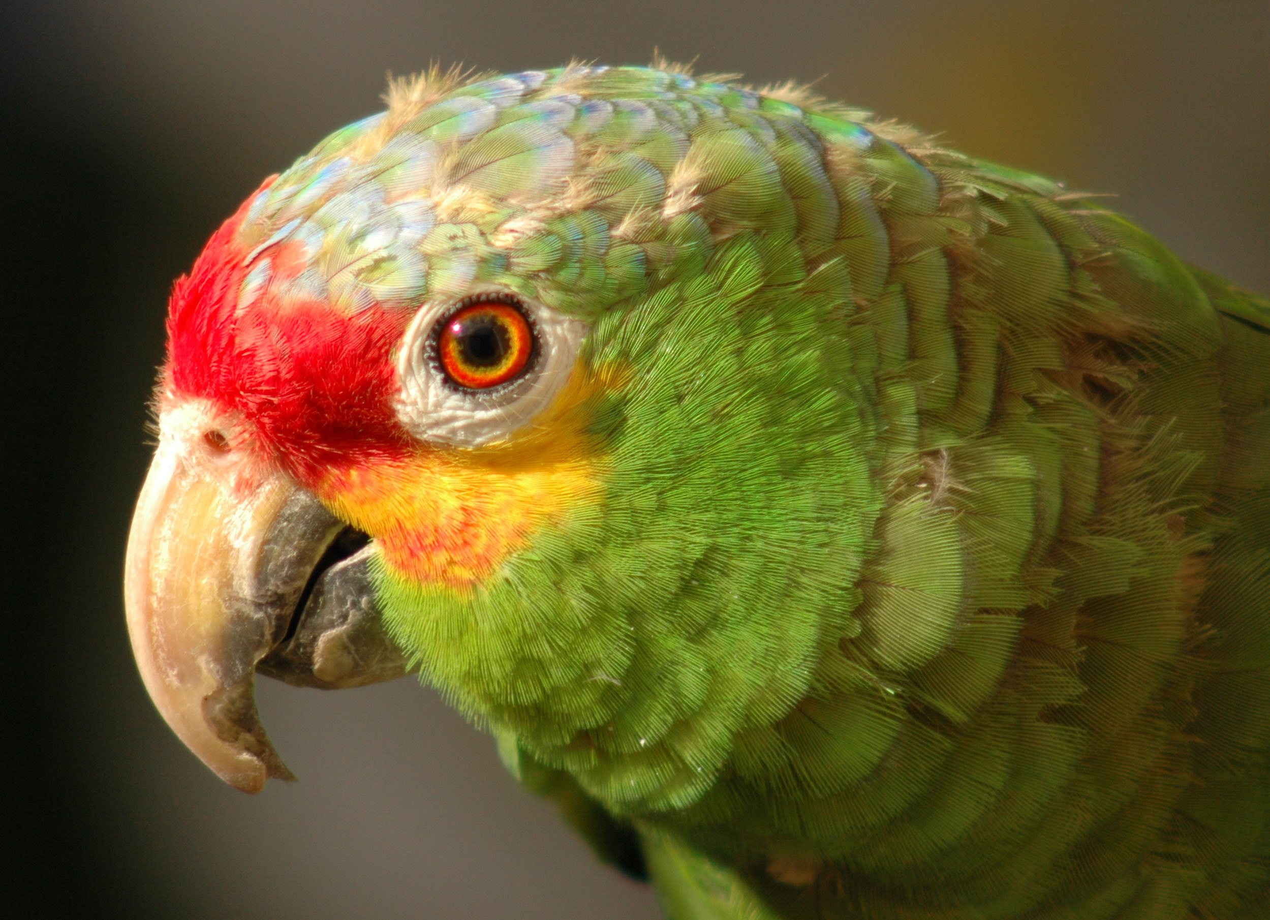 Amazona Autumnalis (male); photograph shows head and neck.